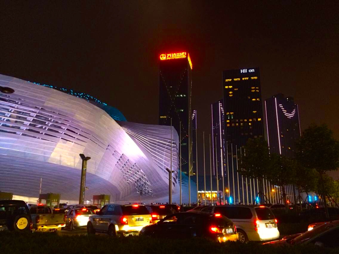 Wanda Center, Dalian, China